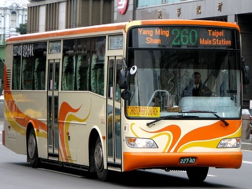 Metropolitan Transport Co., Ltd. Taipei City Route 260 Half Line. (227-AD)